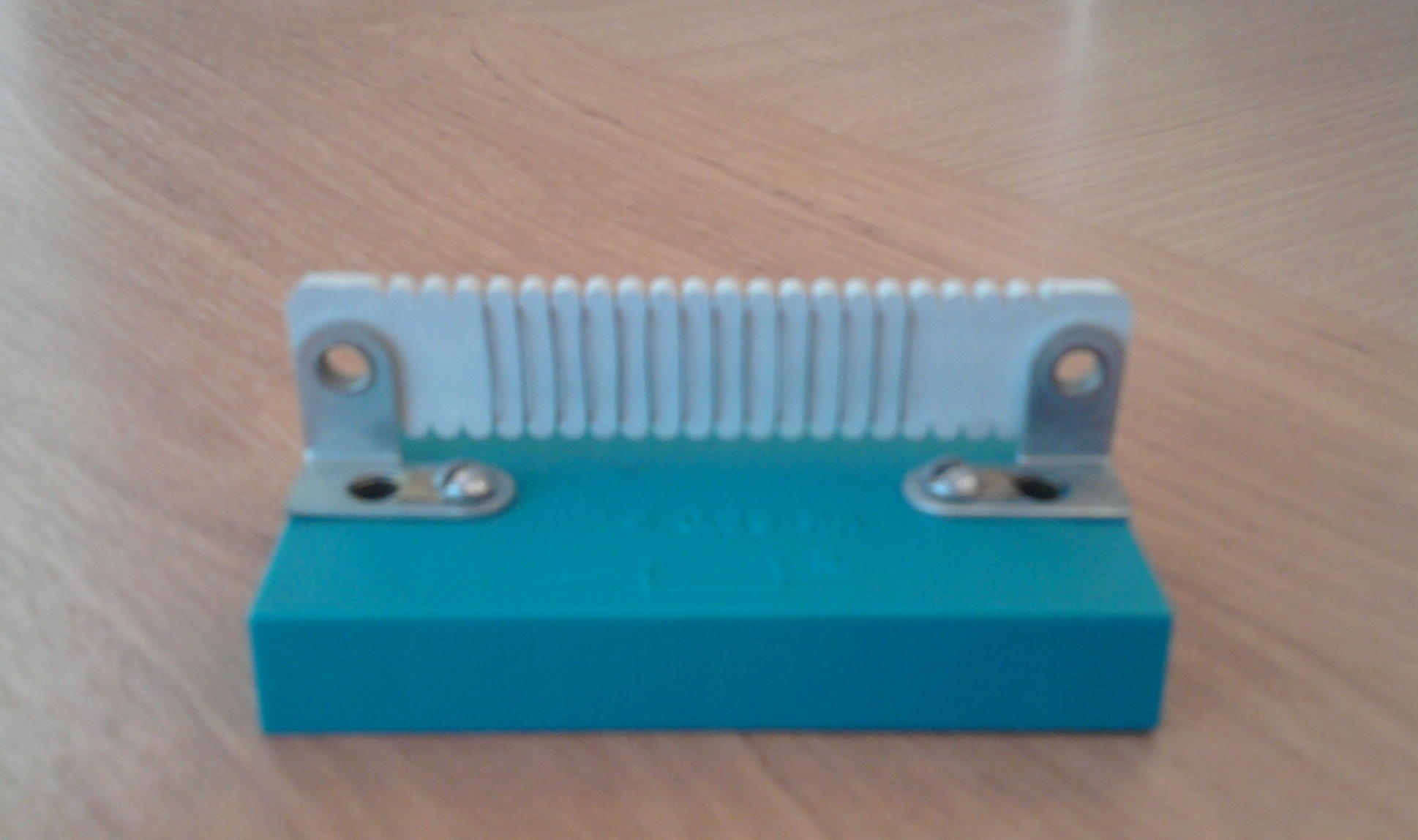 Laboratory resistor